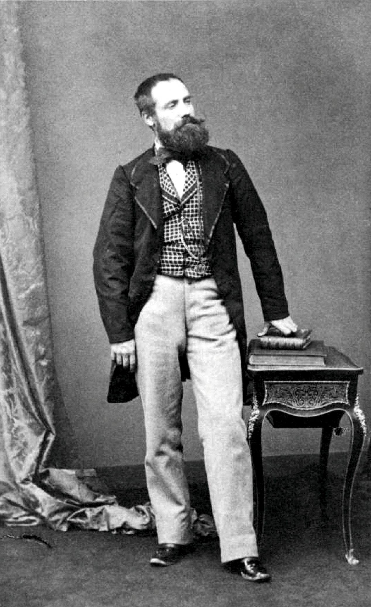 Photograph of Adolphe Yvon (1817-1893), French painter and teacher.